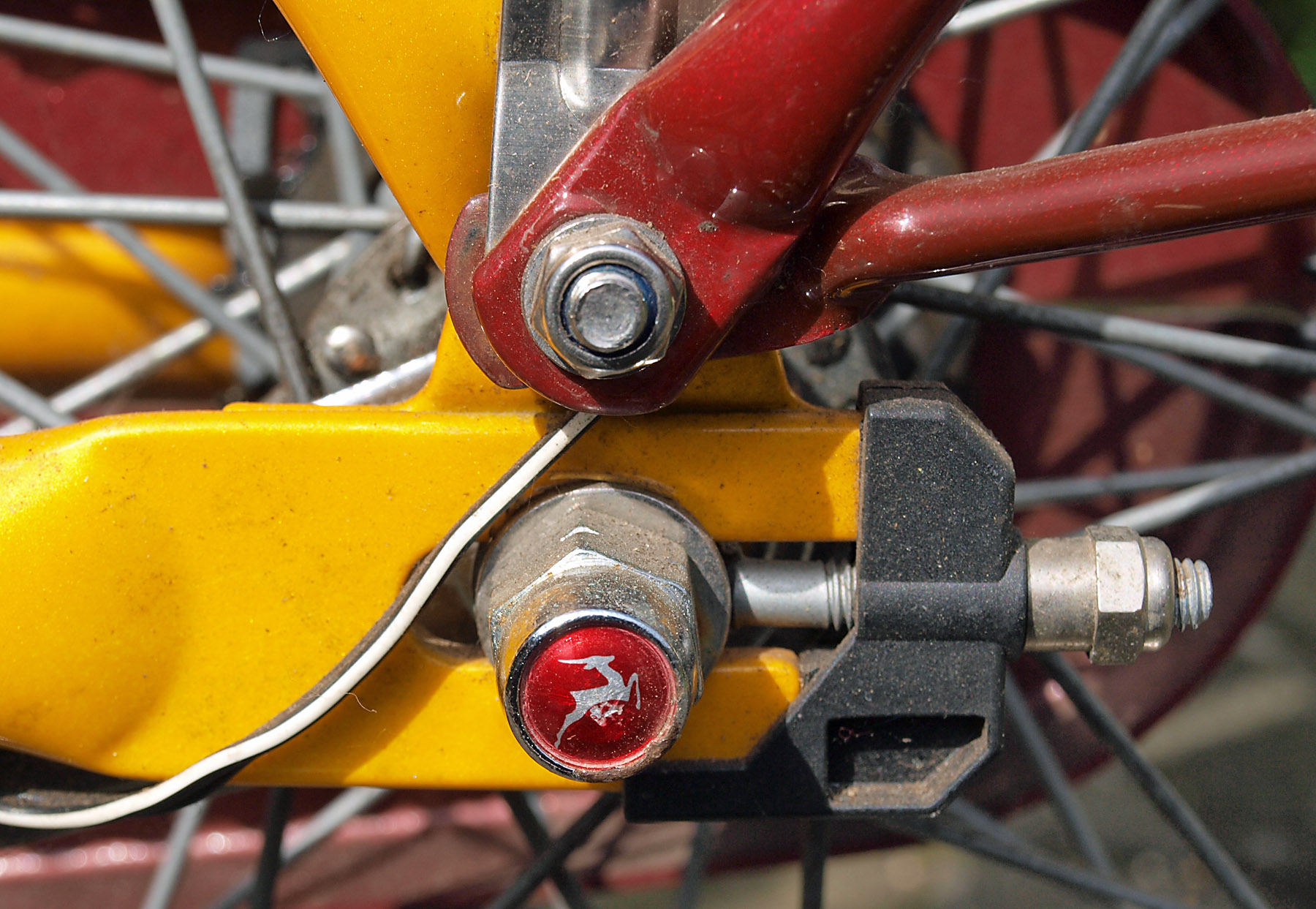 Bicycle chain tensioner to the left rear wheel